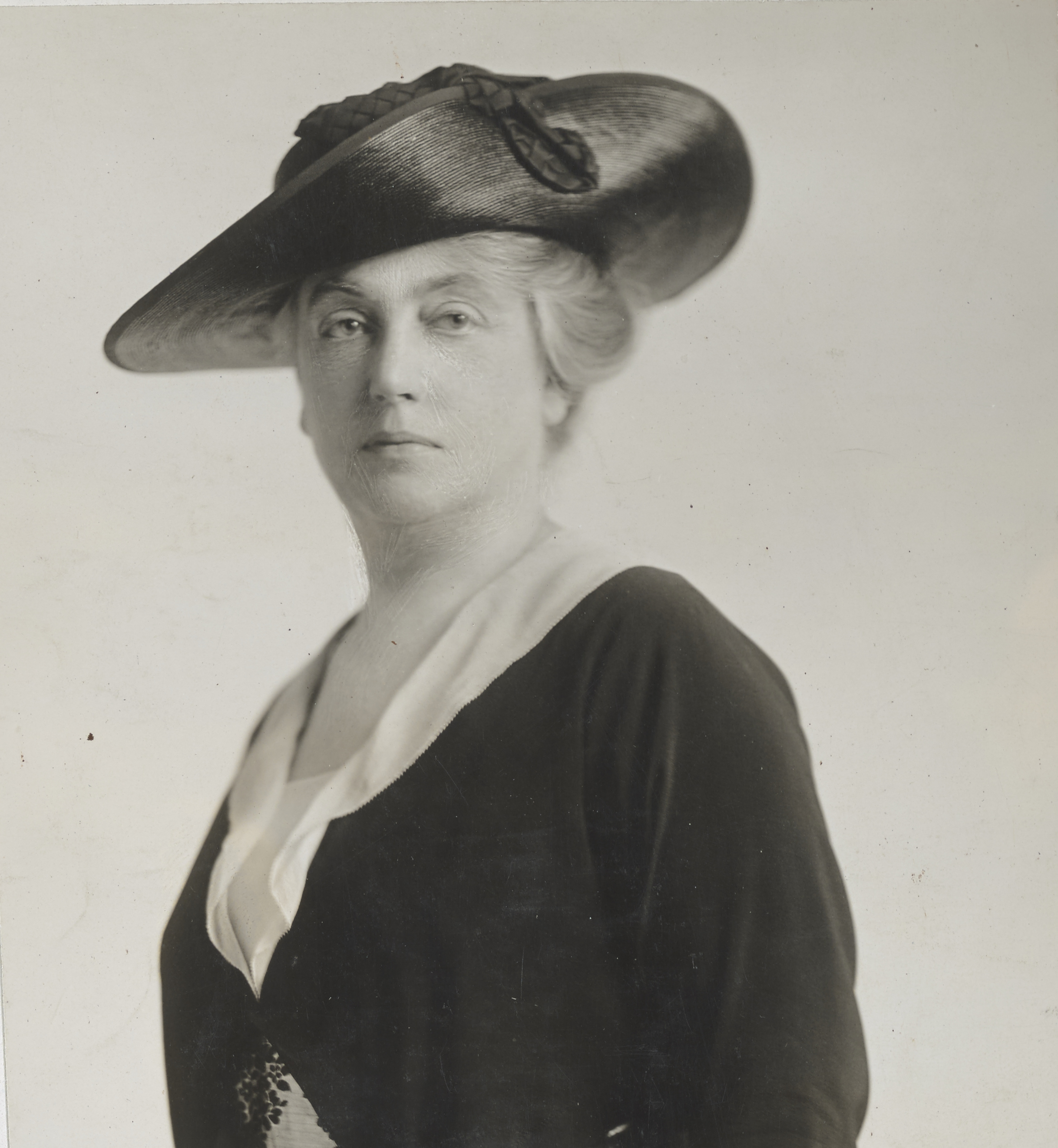 Scope and content: Photographer: C.P.I.